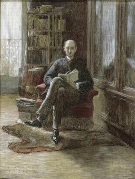 Raymond Koechlin (1860-1931)